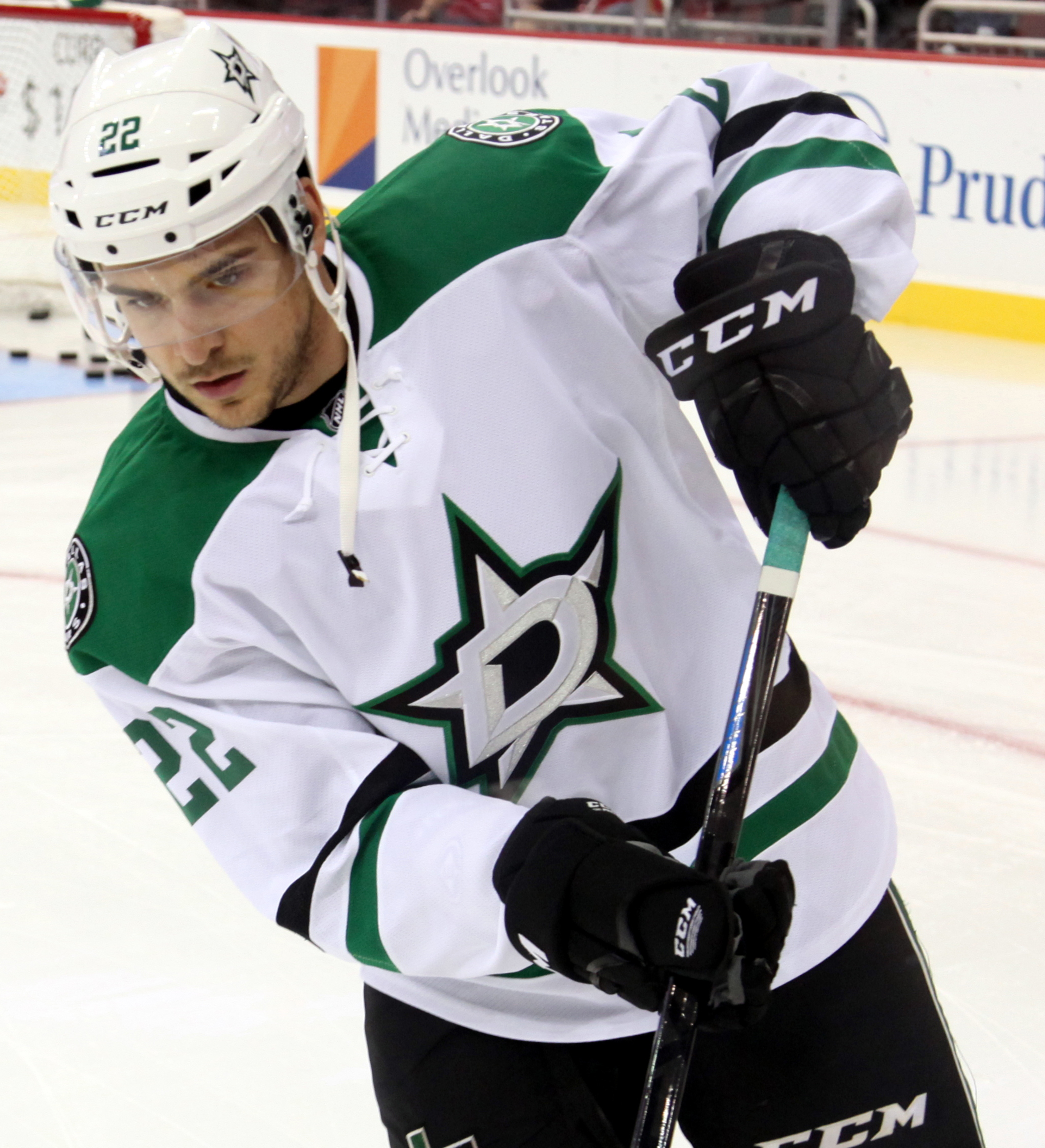 Sceviour in October 2014.